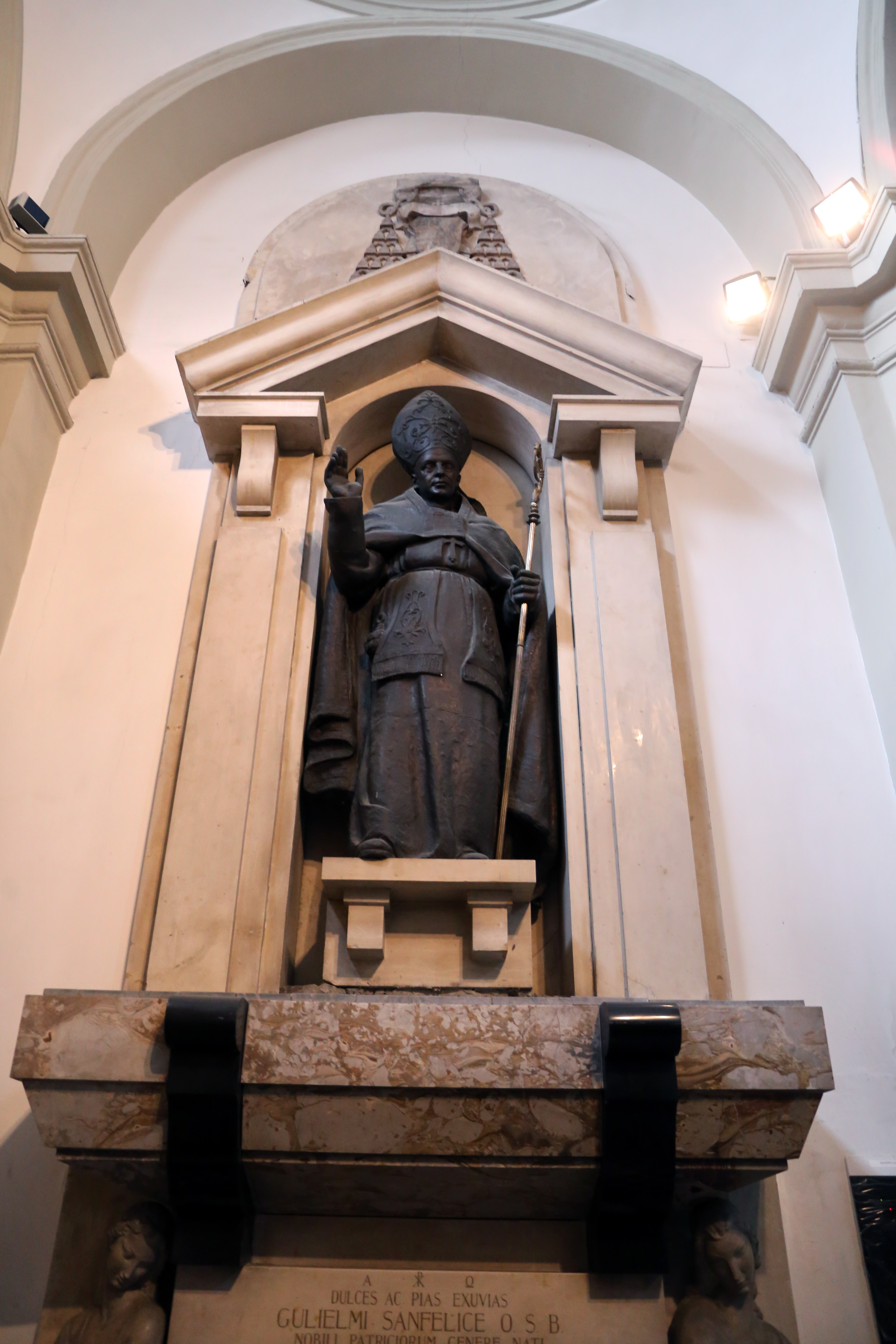 Cathedral (Naples) - Interior